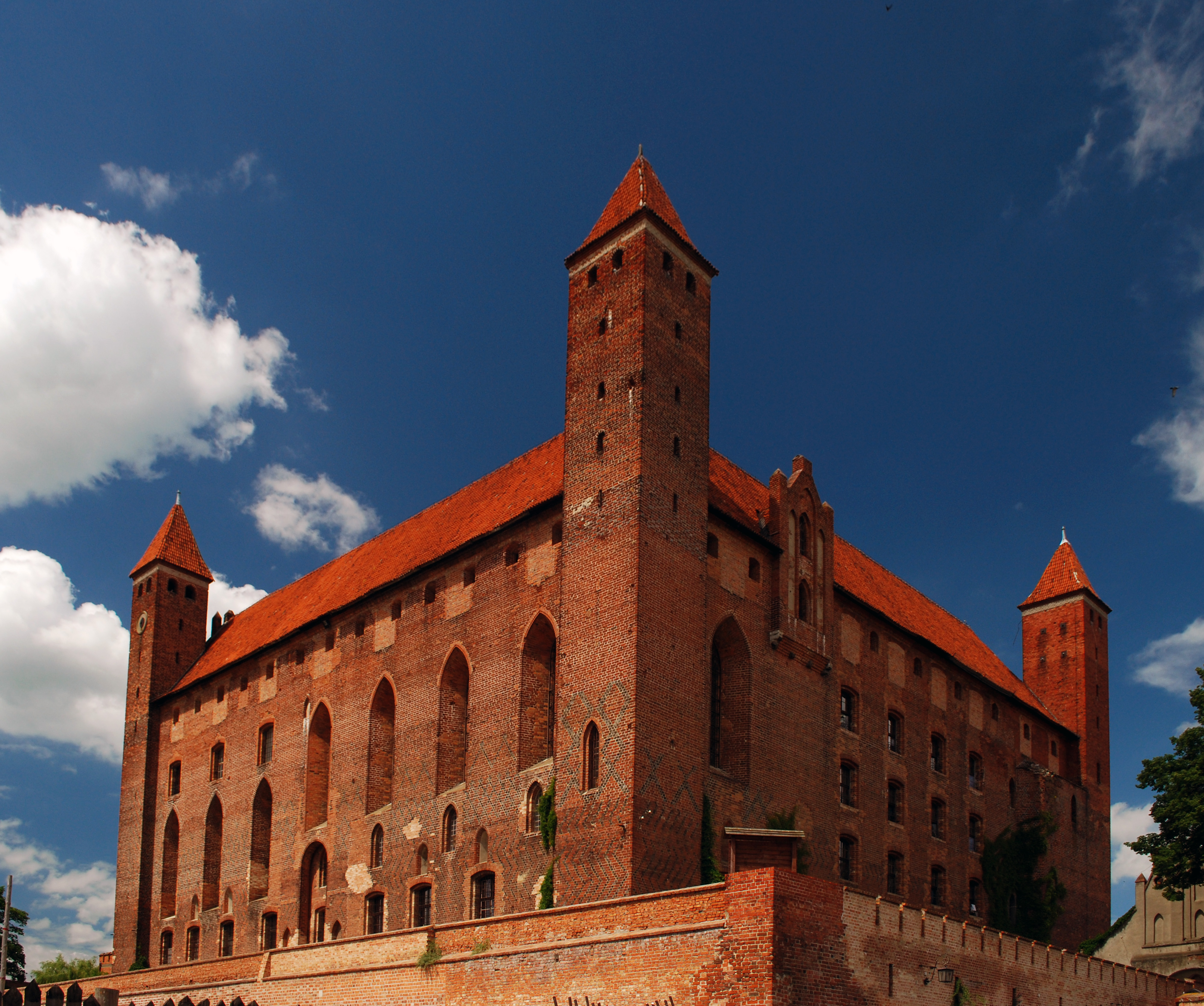 Gniew Castle - side view